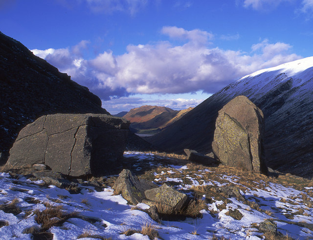 The Kirk Stone Looking north towards Brothers Water